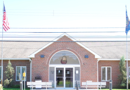 This is a picture of the Darby Township Municipal in Darby Township, PA.